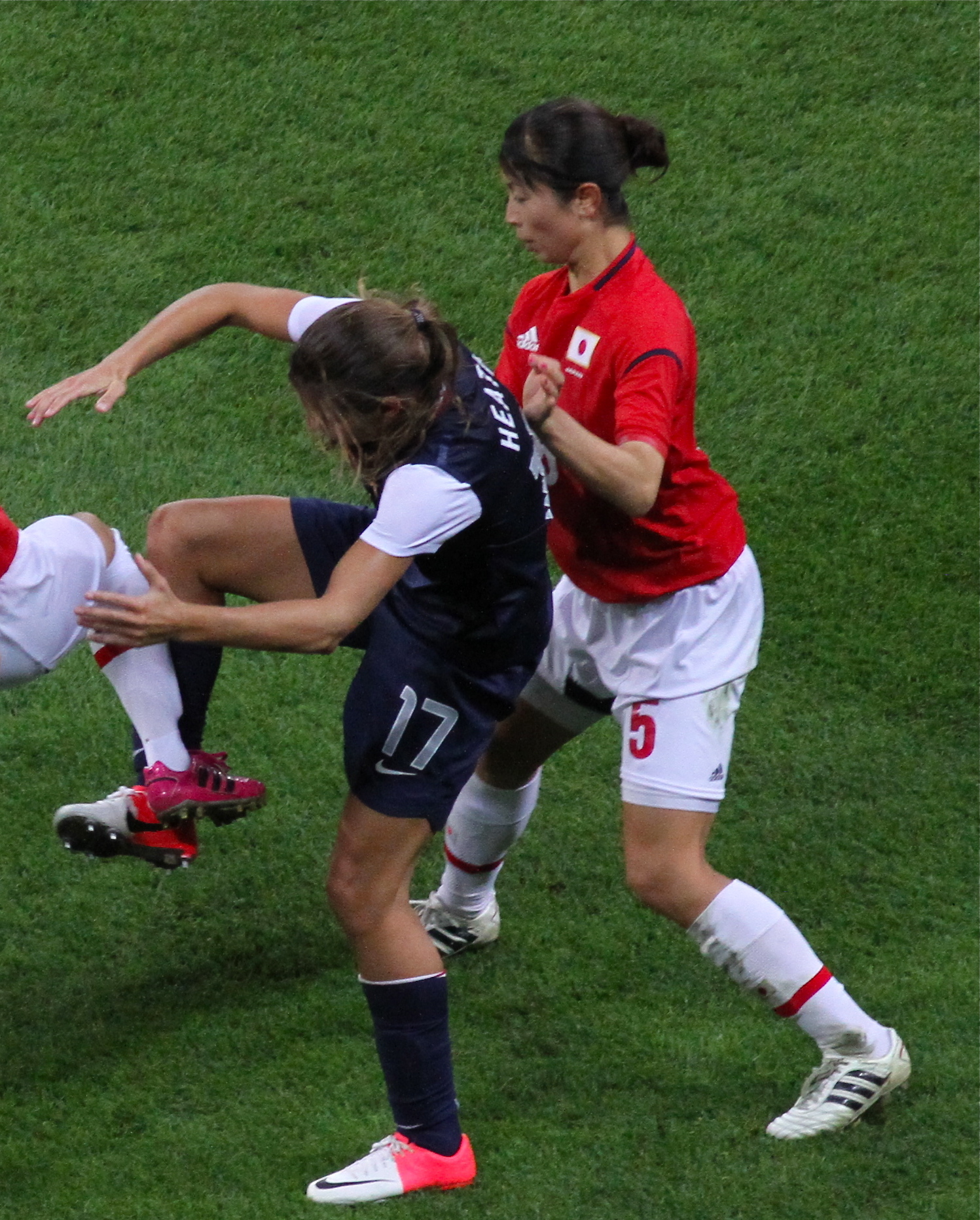 Tobin Heath (17) of the United States fights for the ball against Nahomi Kawasumi (9) and Aya Sameshima of Japan.